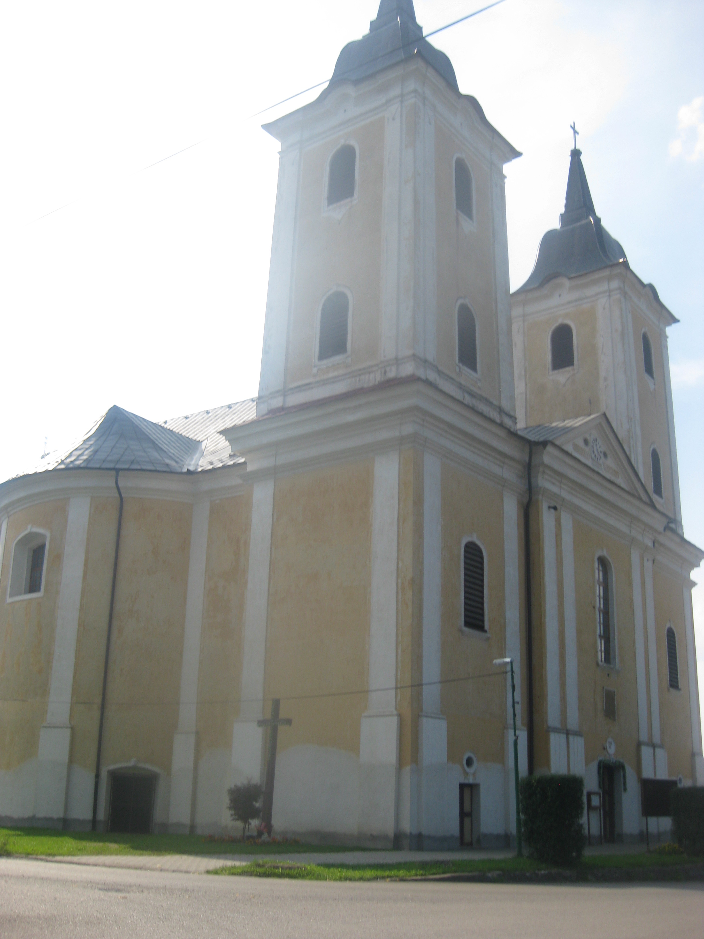 Church Visnove